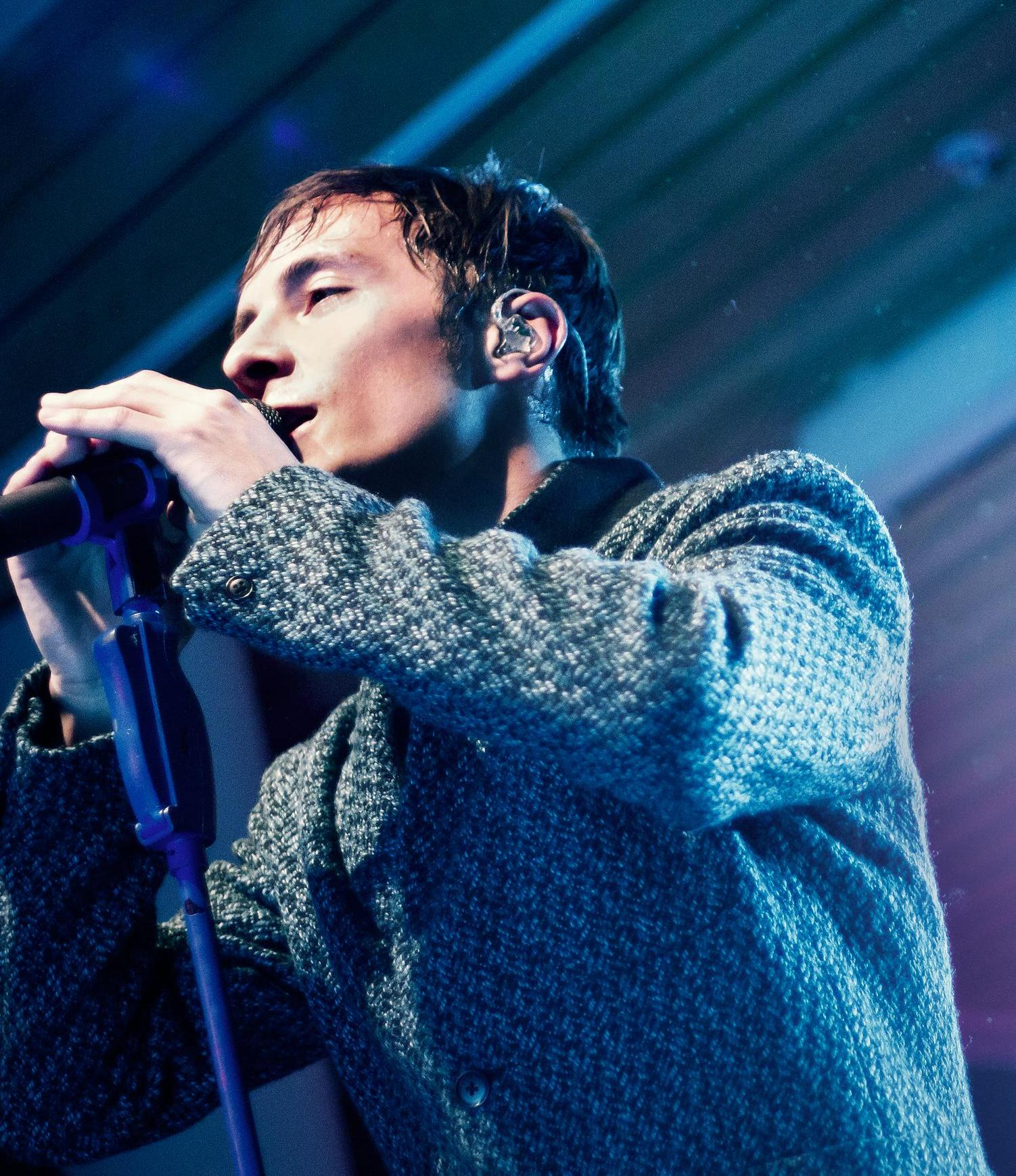 Daniel Adams-Ray performing in Södertälje, February 2011.